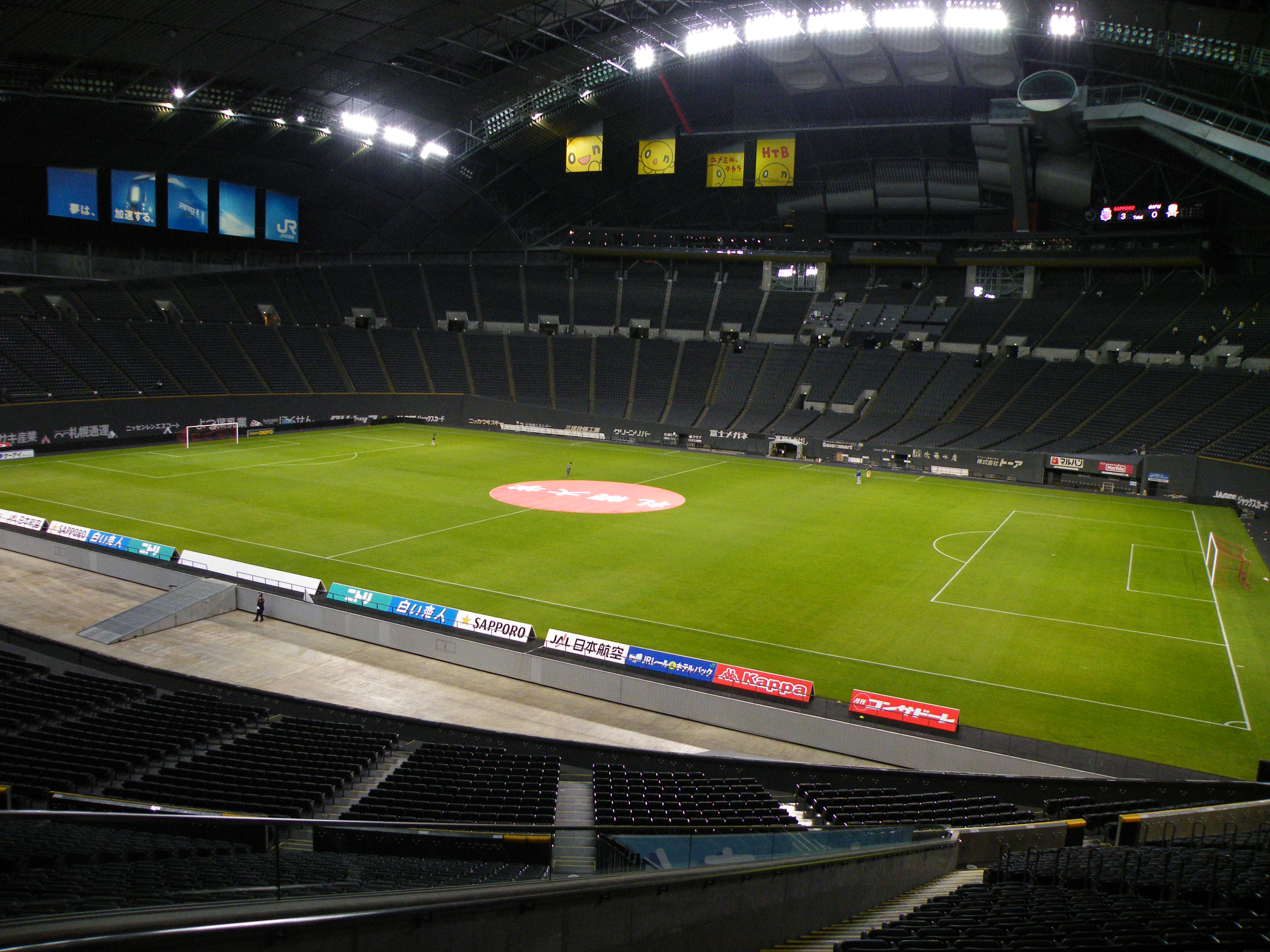 Sapporo Dome